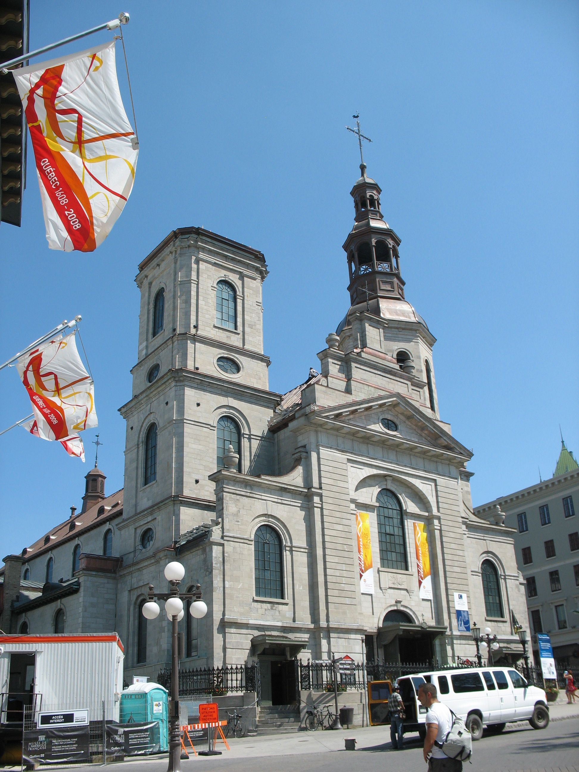 Notre-Dame de Québec Cathedral, with flags celebrating the 400th anniversary of Quebec in front.